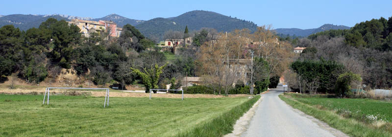 Village of Puget-sur-Durance in Vaucluse, France